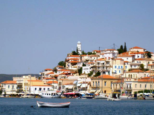 View of Poros port